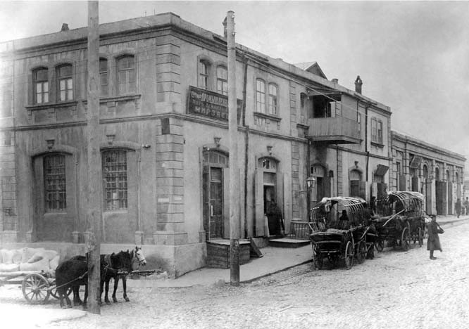 Baku. Trade and industrial store of Mir Ismayil Mirzayev on Chadrovaya Street